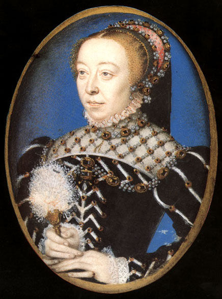 (Dropped shadow version) Miniature of Catherine de' Medici, "a rare portrait of Catherine before she was widowed in 1559, when she adopted the veil and severely plain dress of a widow."